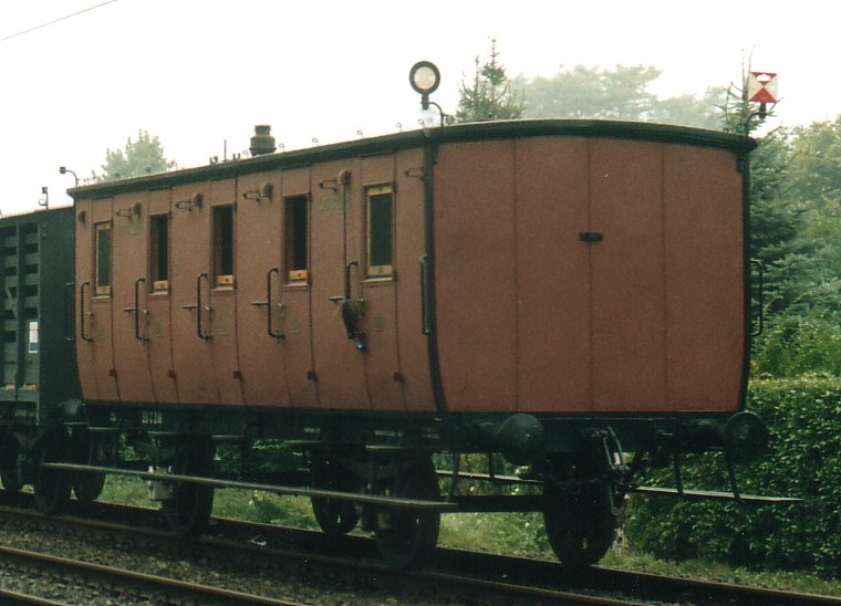 Passenger coach C218, owned by the Dutch Railwaymuseum.